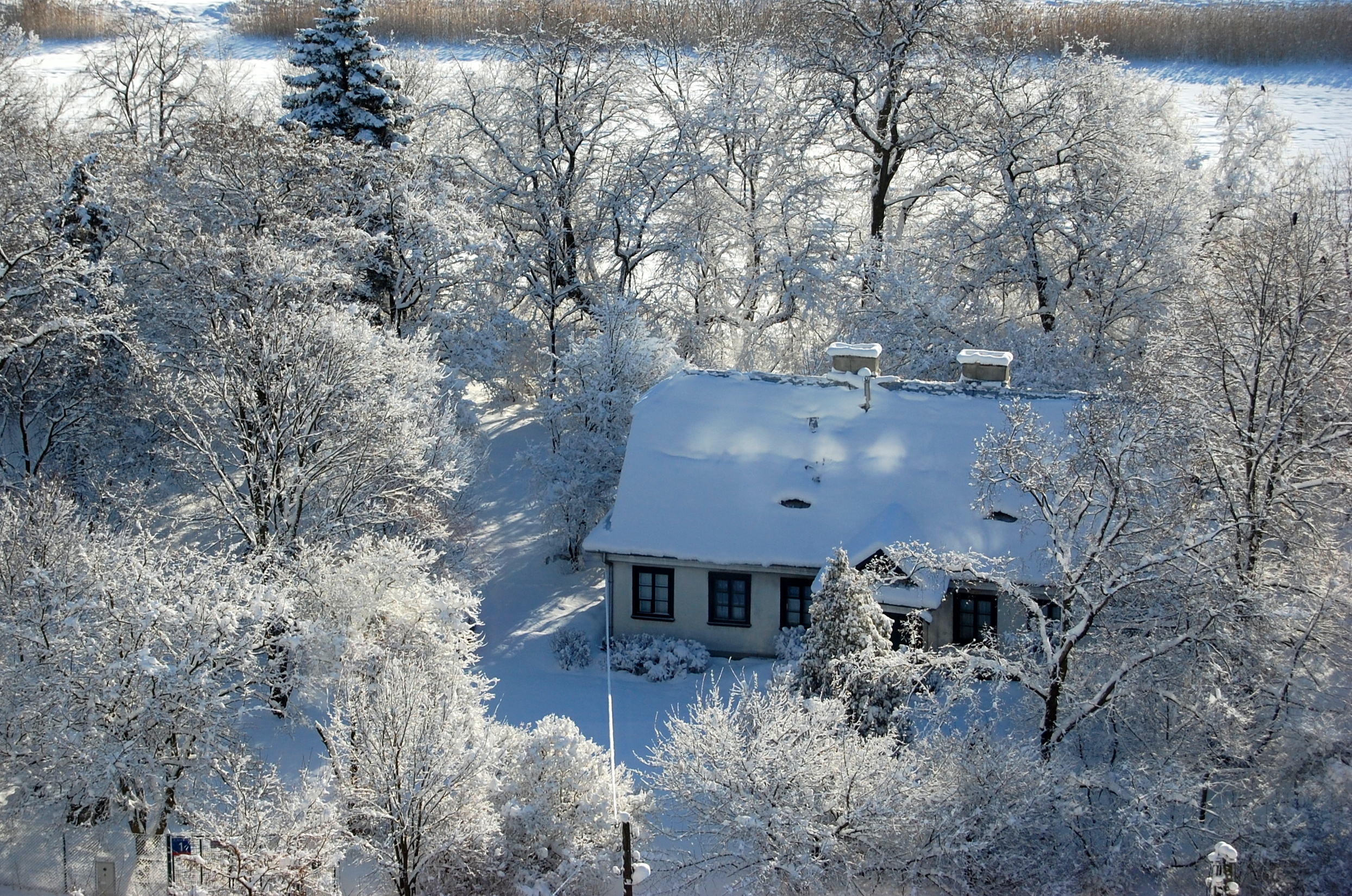 Mansion built in 1850 in Czerniaków neighborhood, Warsaw